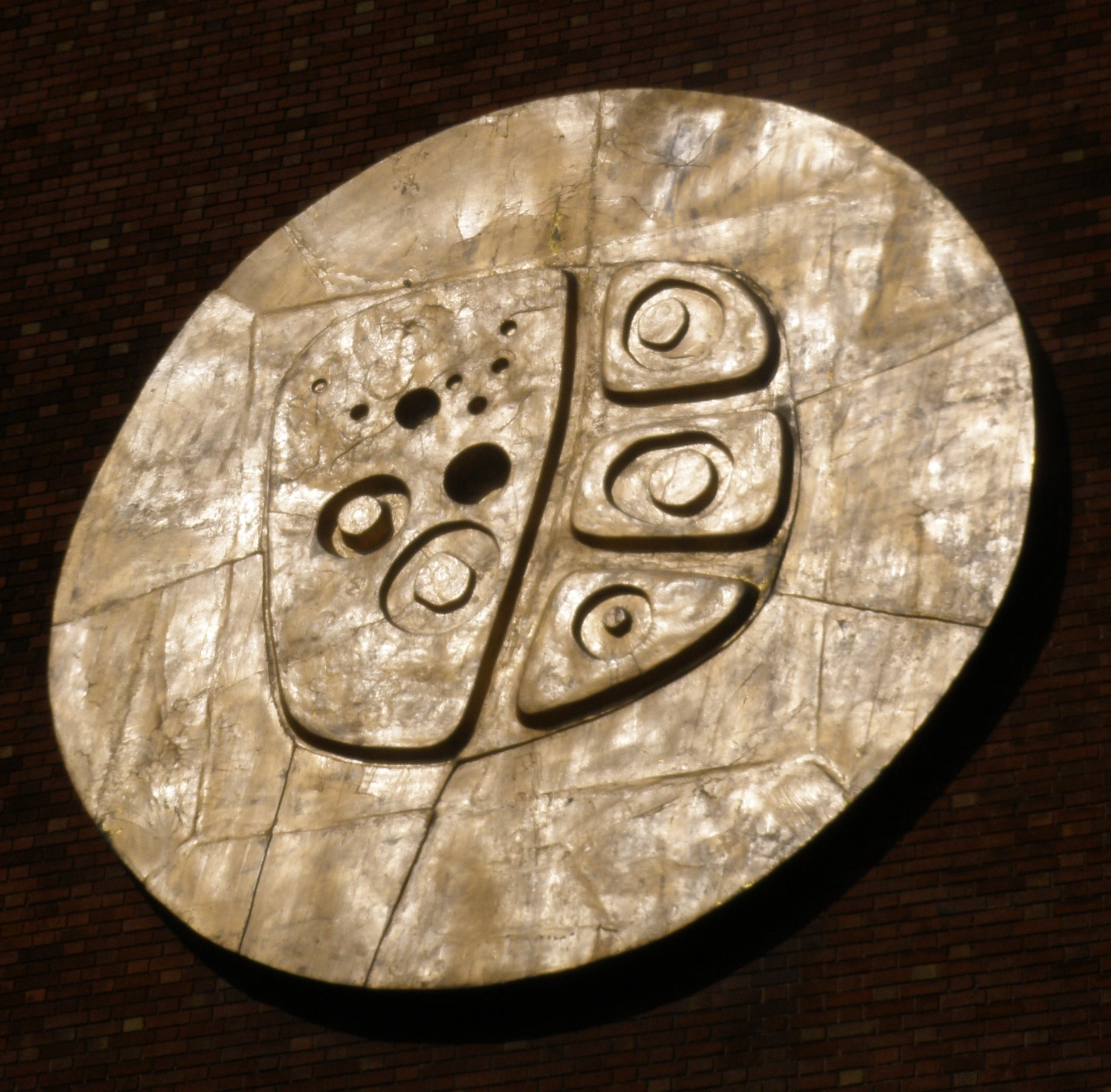 Williamson Building - Badge - facing east. University of Manchester, Manchester, UK. (This relief is the work of Lynn Chadwick. Hartwell, Clare (2001), Manchester, Pevsner Architectural Guides, Penguin Books, p. 117.)